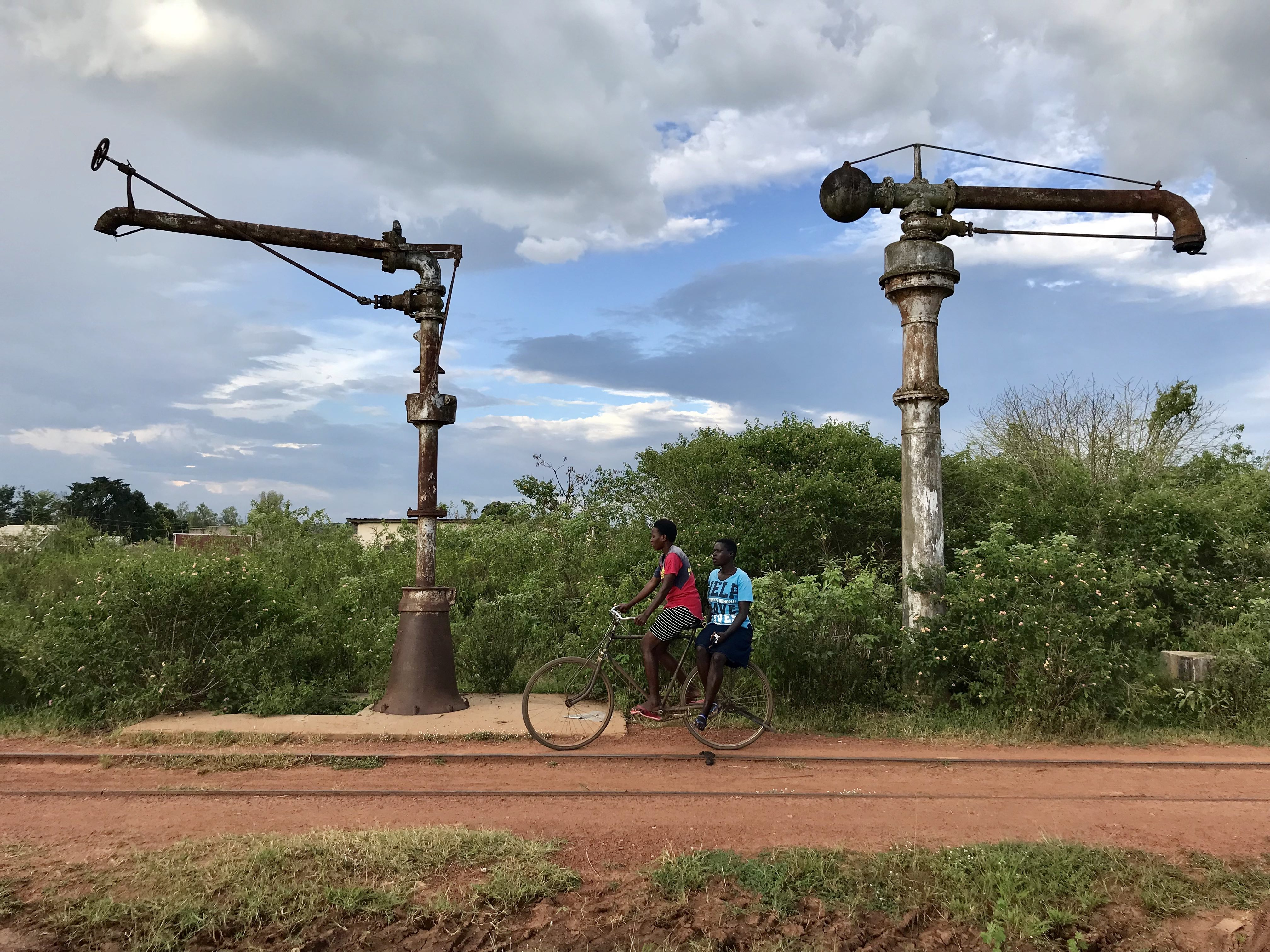 A lady rides a bicycle with a passenger along the train tracks in Lira town, Uganda This is an image with the theme "Africa on the Move or Transport" from: Uganda